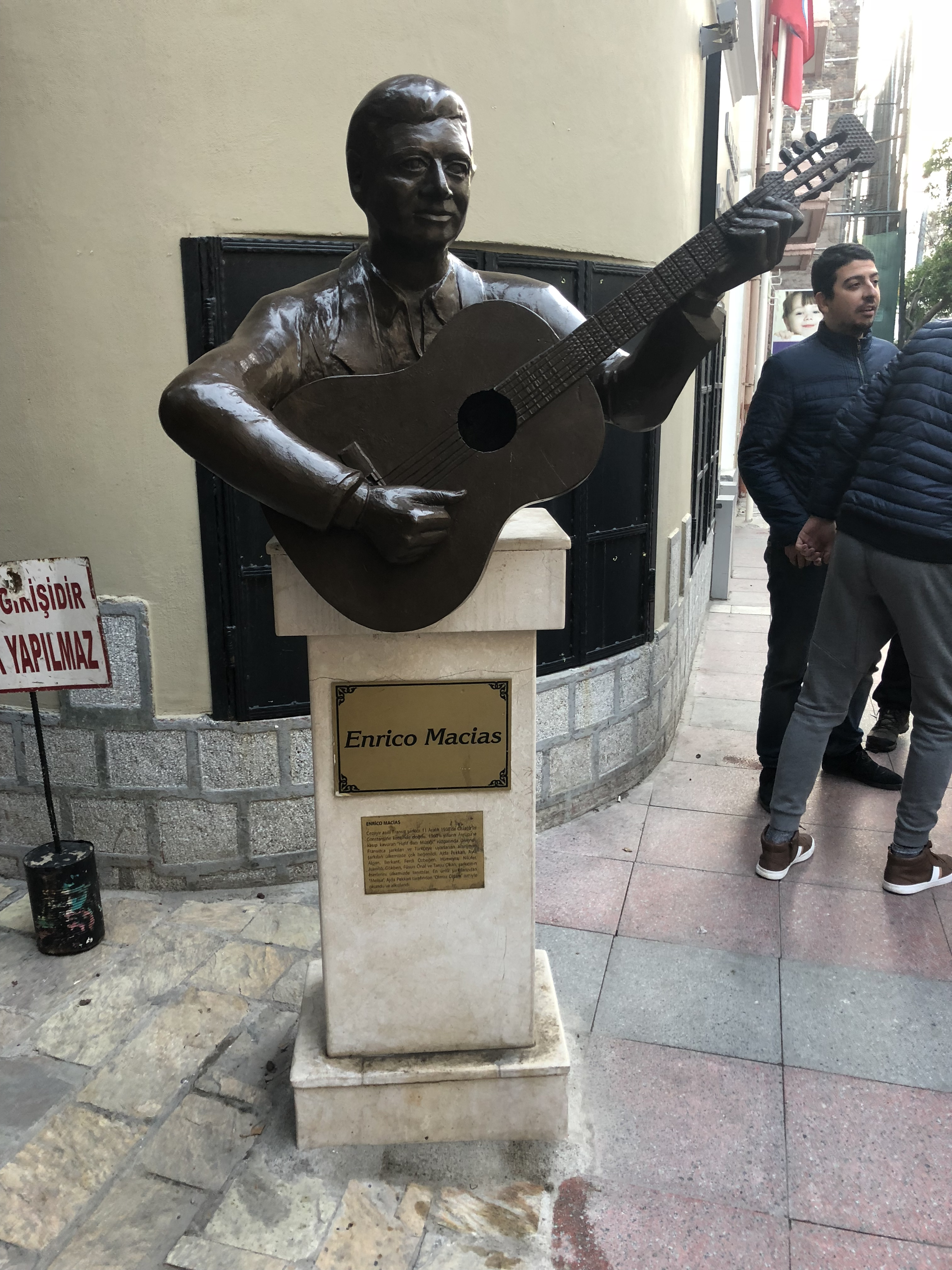 Enrico Macias Bust at Dario Moreno street